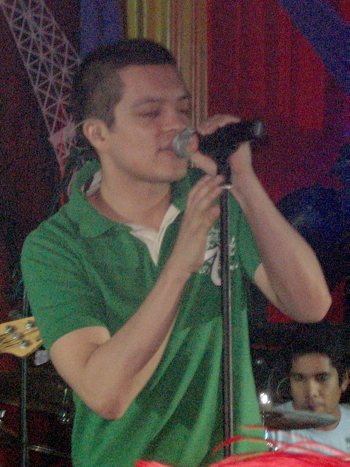 The file is a derivative work of this image originally uploaded by Exec8 in the English Wikipedia and transferred by Magalhães to Wiki Commons.